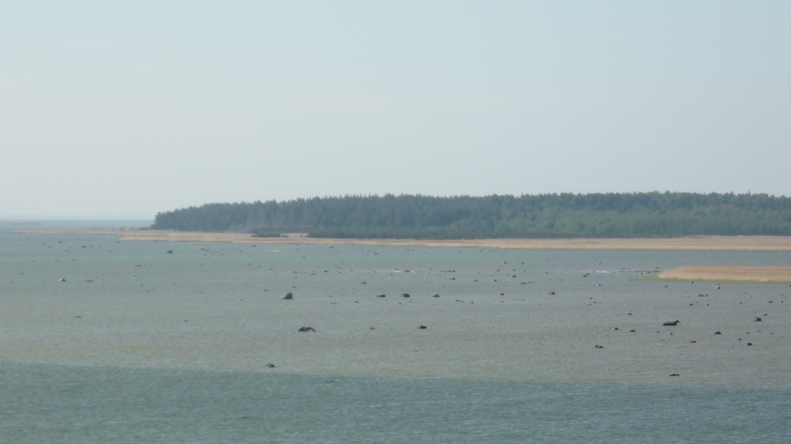 Southern part of Tauksi, a small Estonian island. View from south. Matsalu national park. Ridala parish, Lääne county, Estonia.